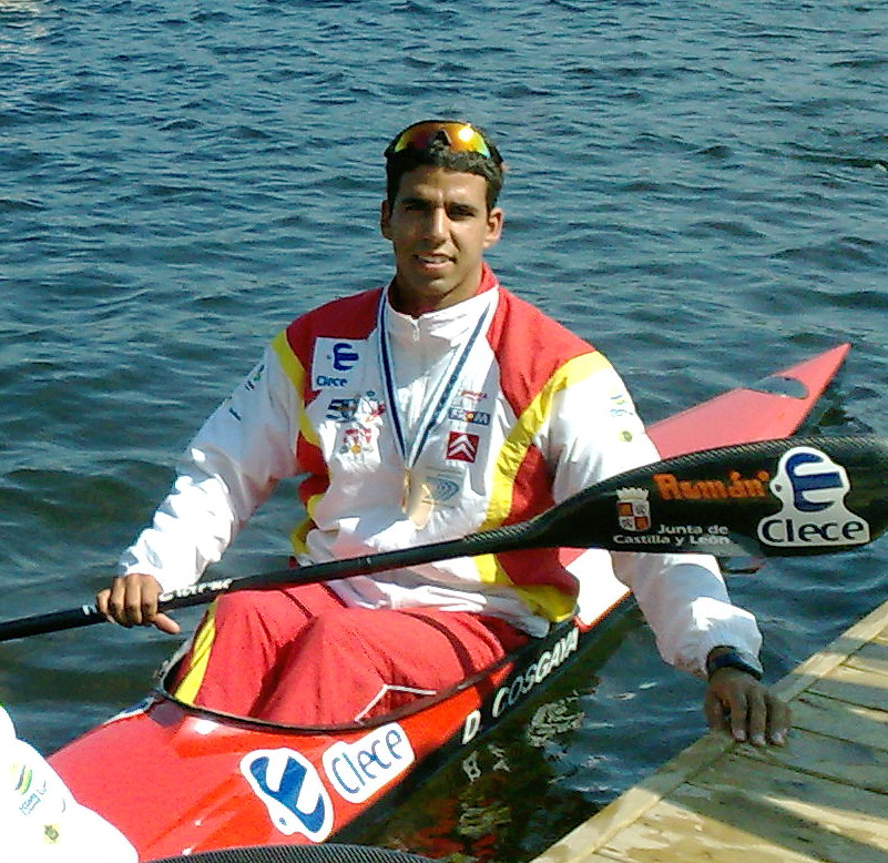 diego cosgaya canada